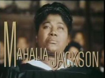 Screenshot of Mahalia Jackson from the film Imitation of Life